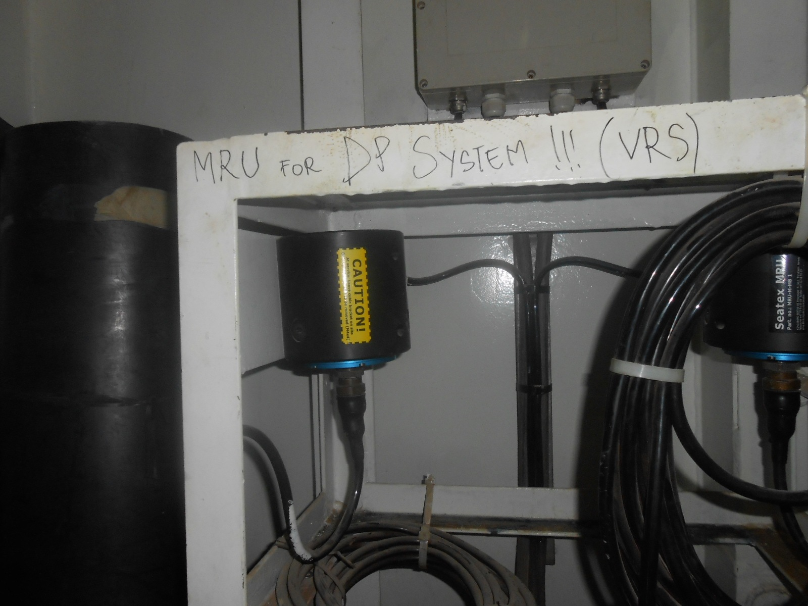 Vertical Reference Sensors (measuring rolling, pitching and heaving) on vessel with Dynamical Positioning.